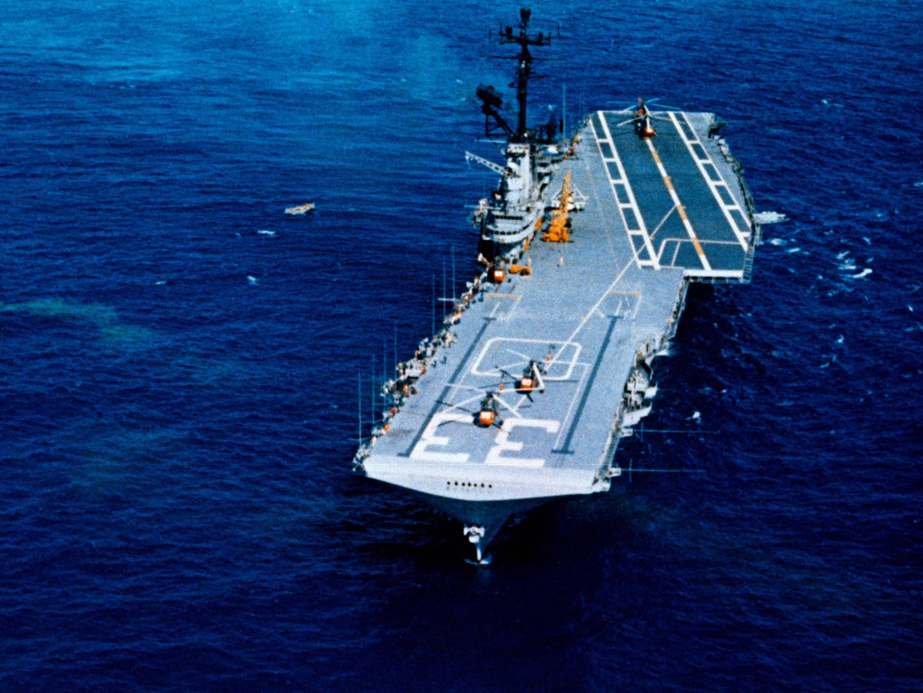 The U.S. Navy aircraft carrier USS Kearsarge (CVS-33) during the recovery of the Mercury-Atlas 8 mission on 3 October 1962.